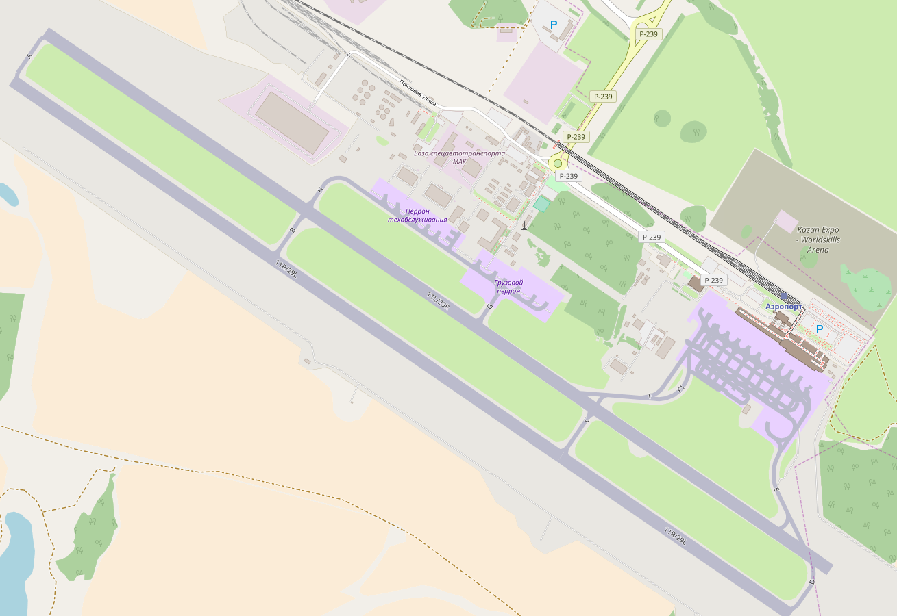 This map may be incomplete, and may contain errors. Don't rely solely on it for navigation.